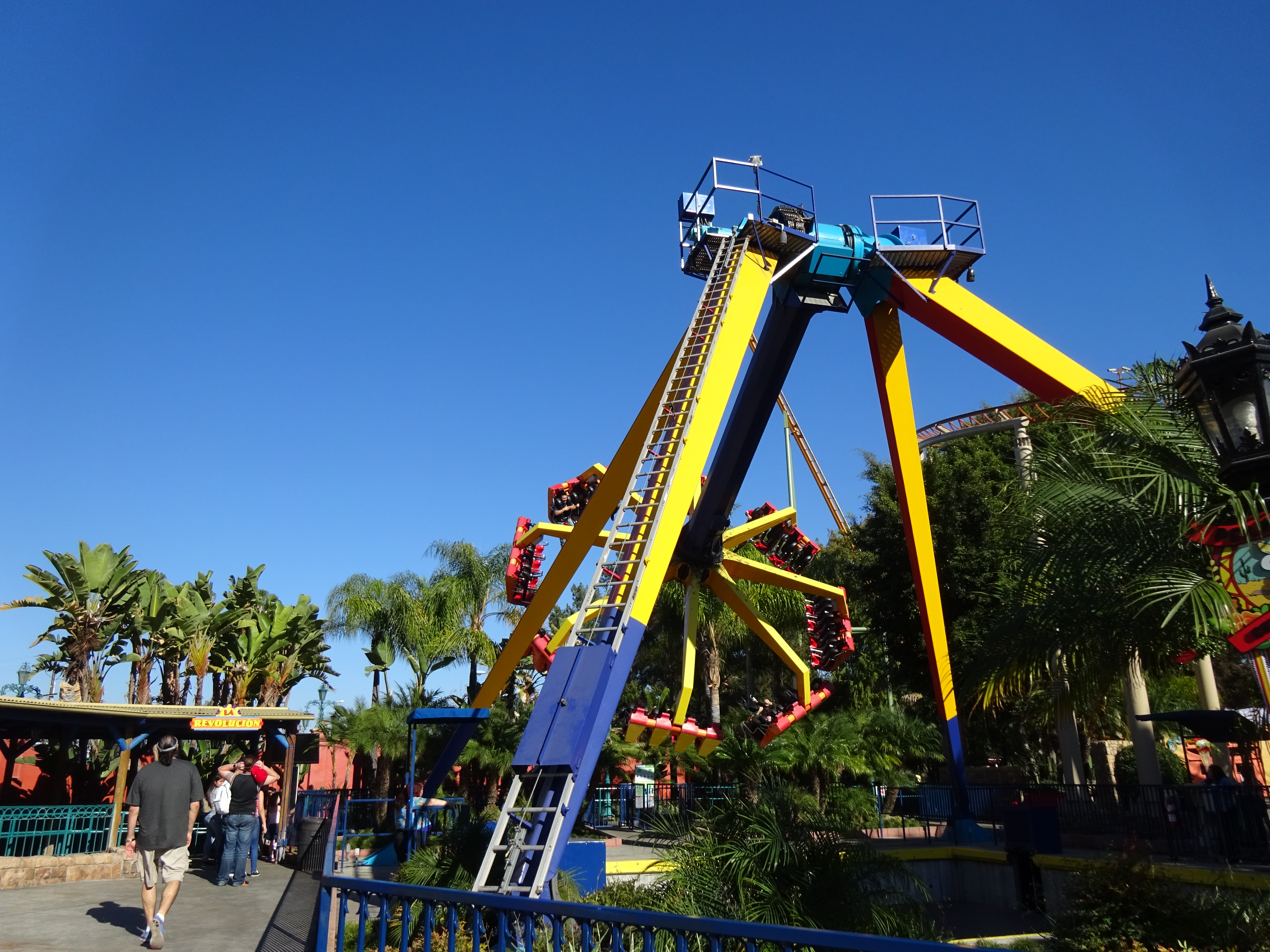 La Revolucion